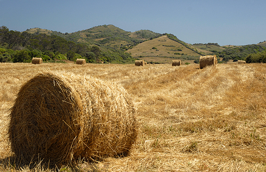 Minorca field.